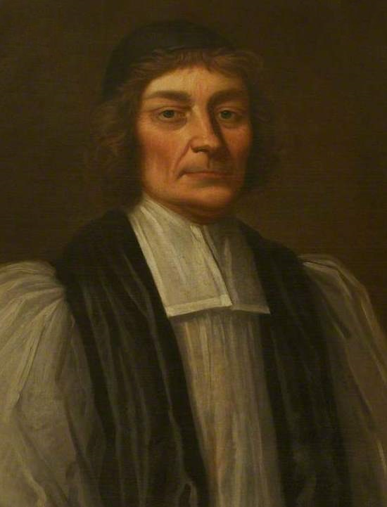 William Beveridge, Bishop of St Asaph. Posthumous portrait, painted from the bishop's cadaver.